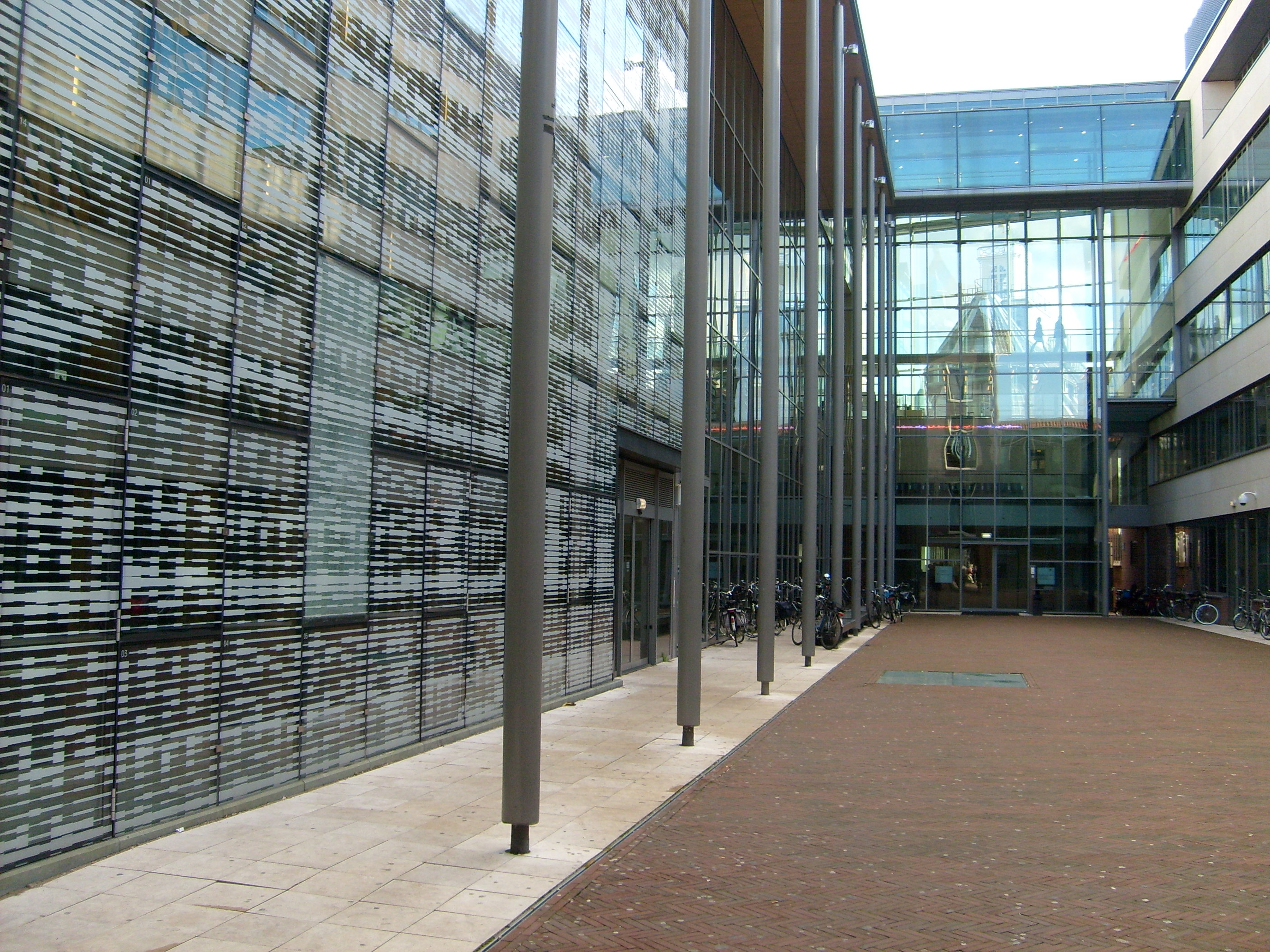 Court of Justice in Haarlem, Netherlands